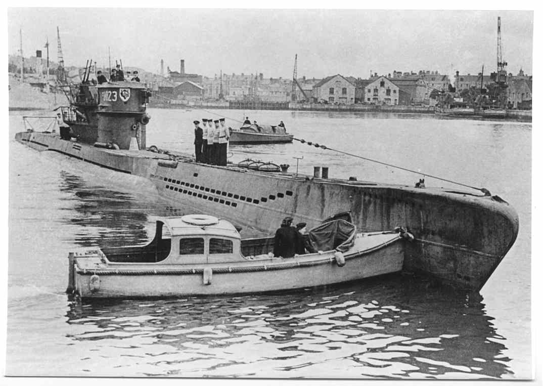 After surrender U 1023 is towed to the port of Plymouth